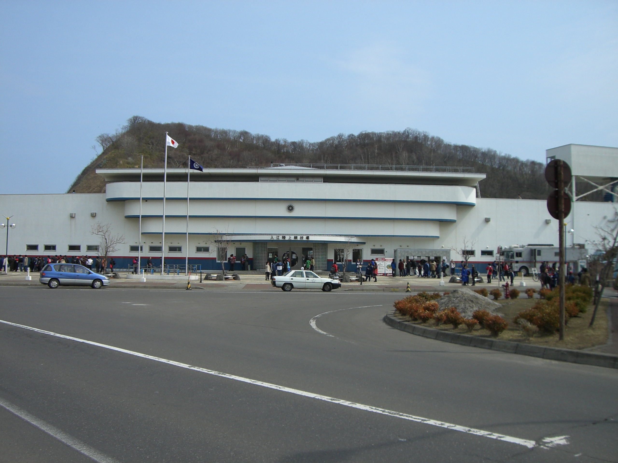 Muroran-irie stadium. Muroran-City,Hokkaido